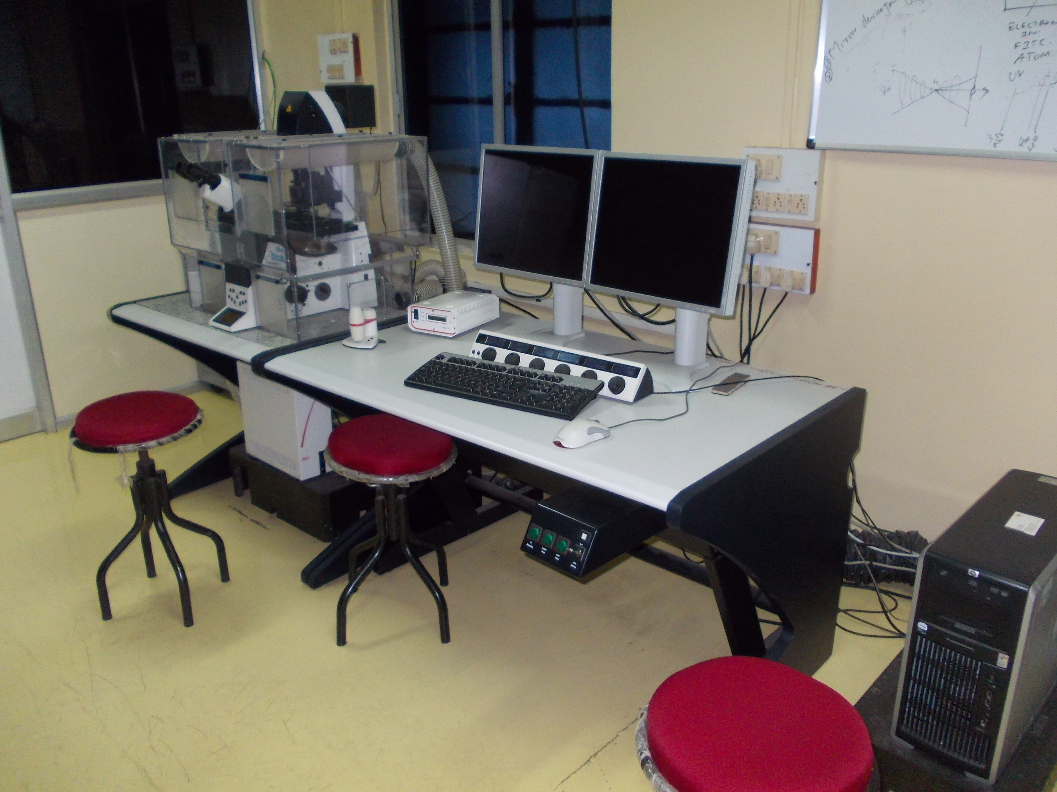 confocal microscopy at NIN-Hyderabad